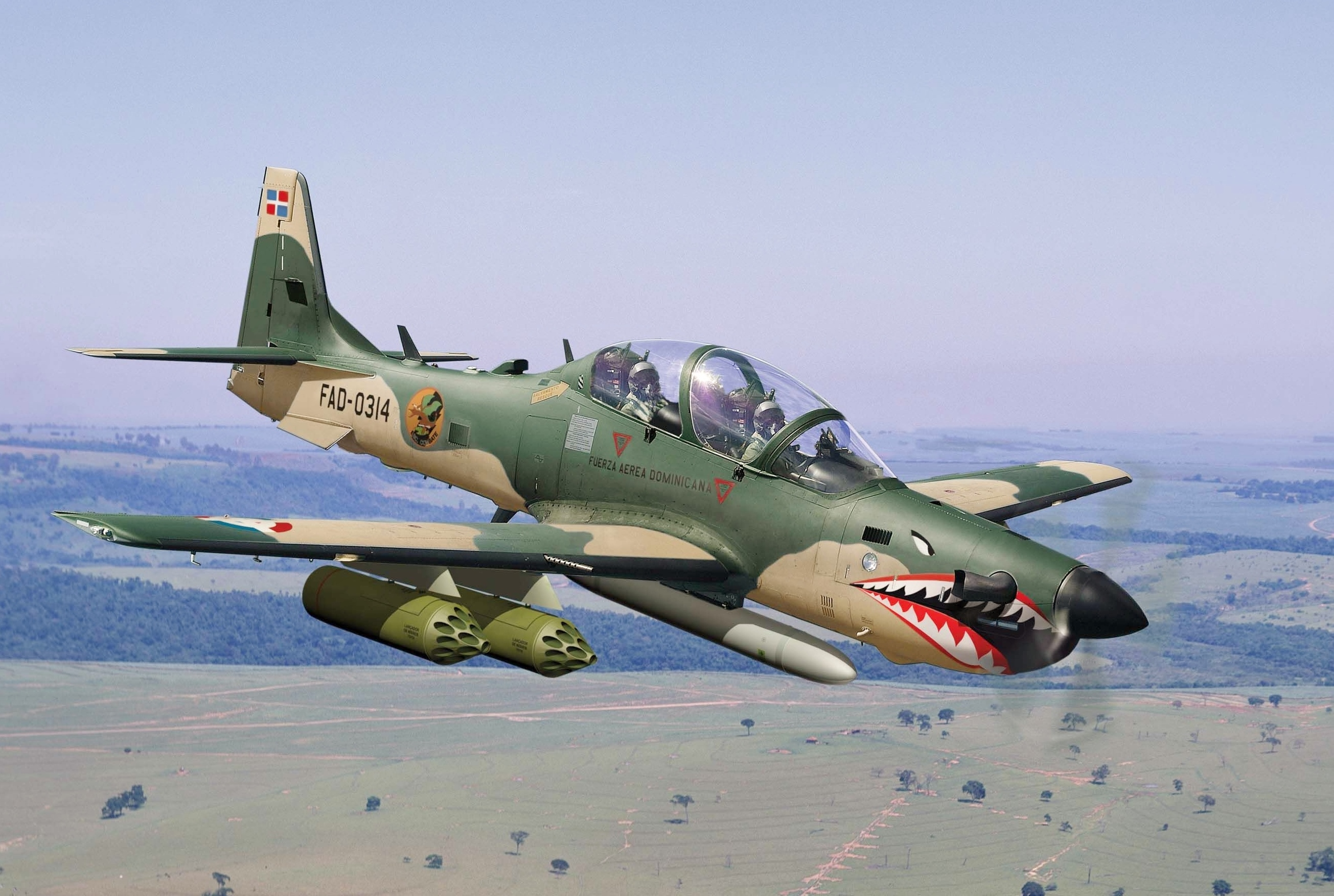 Dominican Republic Air Force EMB-314 Super Tucano